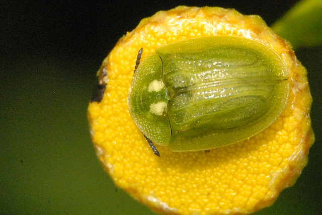 Cassida stigmatica from Commanster, Belgian High Ardennes .